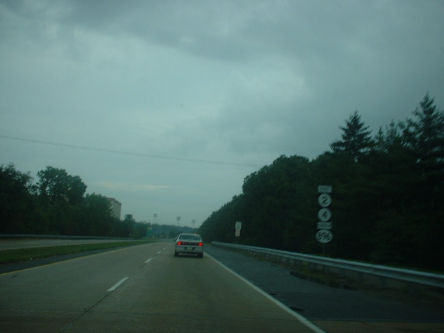 Delaware Route 2/Delaware Route 4 eastbound/Delaware Route 896 southbound (Christiana Parkway) approaching the intersection with College Avenue in Newark. Delaware Route 2 is no longer designated on this road.